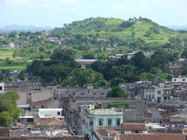 from Ernesto